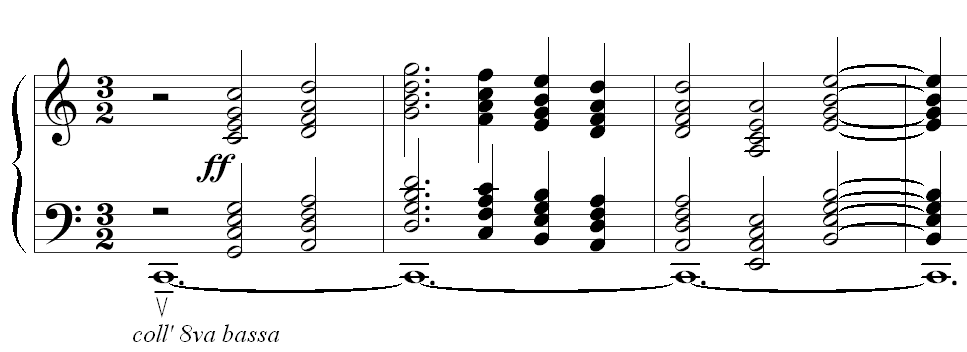 the famous chords symbolizing the church bells in Debussy's prelude La cathédrale engloutie